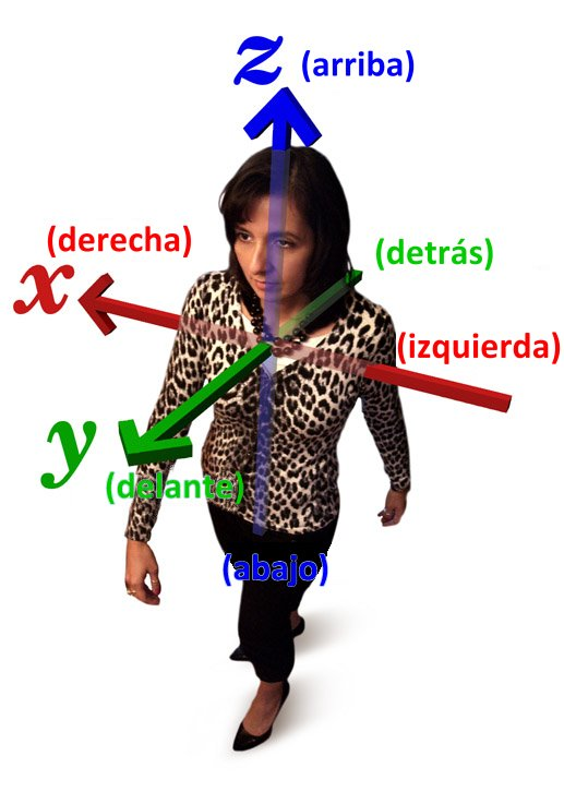 Diagram of Cartesian axes applied to a human being.